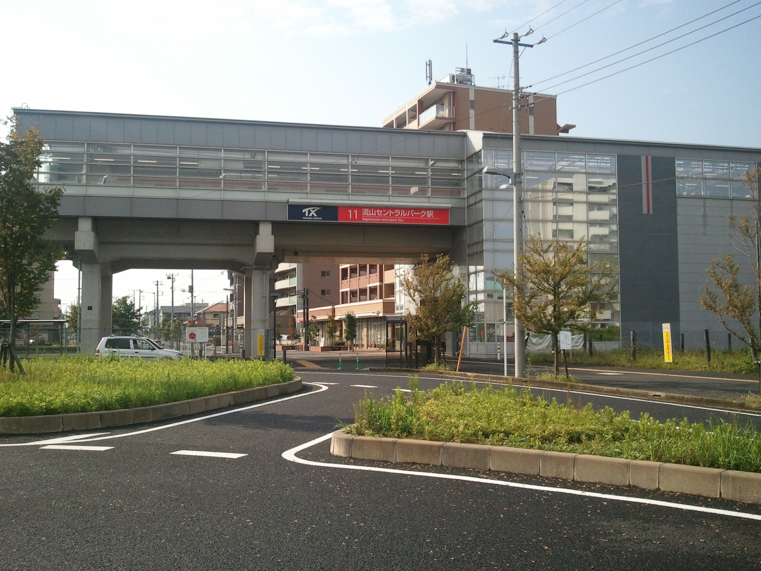 East side of Nagareyama-centralpark Station on the Tsukuba Express